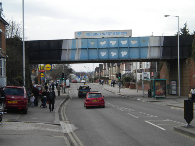 Reading West Railway Bridge, Oxford Road, Reading